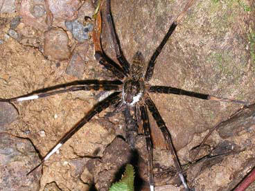 male Dolomedes orion from Okinawa.